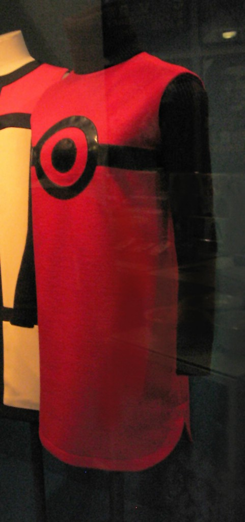 Cosmos' Tunic and Sweater, Pierre Cardin, 1967. For more info, see V&A description page. From flickr by Nadia Priestly.